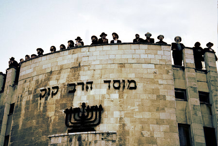 Jerusalem - Mosad Harav Kuk taken by יואב רוזנברג